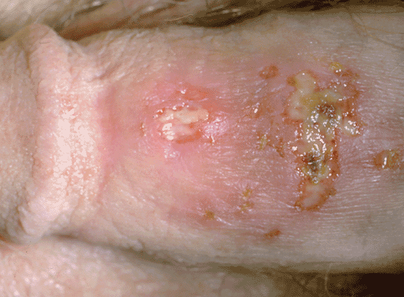 Genital Herpes